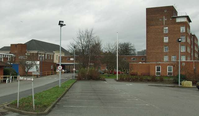 Princess Royal Hospital, Hull. One of three hospitals operated by the Hull and East Yorkshire Hospitals NHS Trust. This site houses the dermatology and clinical oncology departments. These are due to move in the near future to 609644.